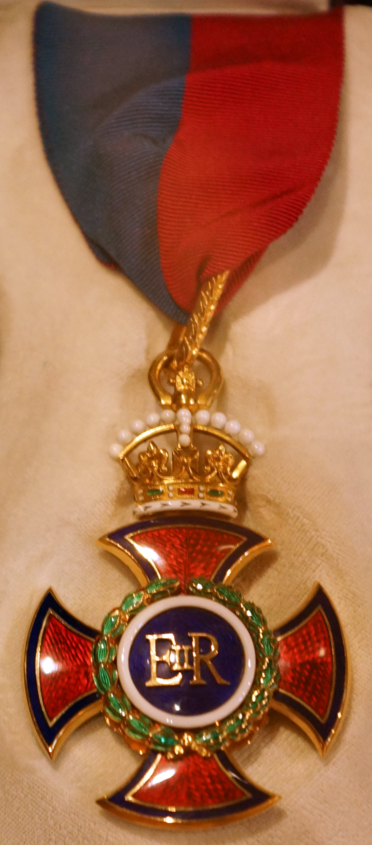 Order of Merit to Cardinal Hume displayed in Westminster Cathedral, London, England.